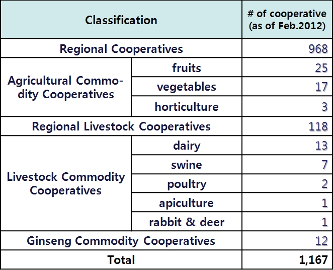 no_of_member_cooperatives revision